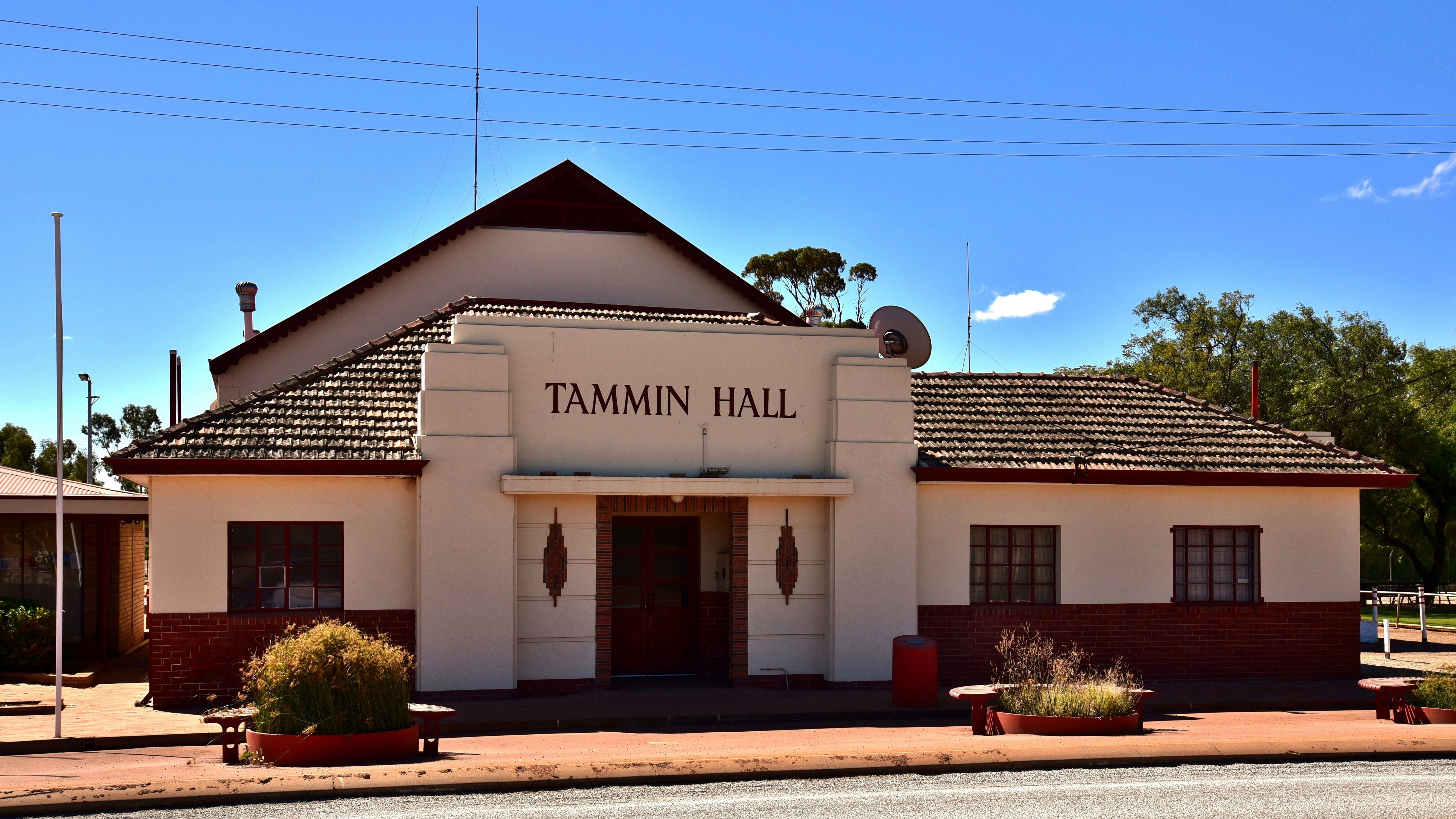 View of the Town Hall, Donnan Street, Tammin, Western Australia